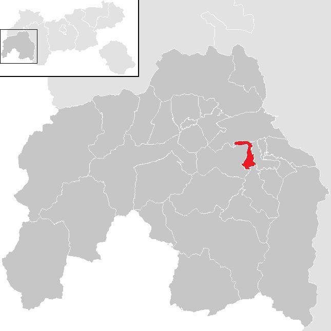 District Landeck